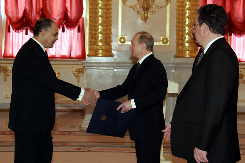 GRAND KREMLIN PALACE, MOSCOW. Letter of credential is presented by the Ambassador of the Arab Republic of Egypt, Ezzat Saad El-Sayed.